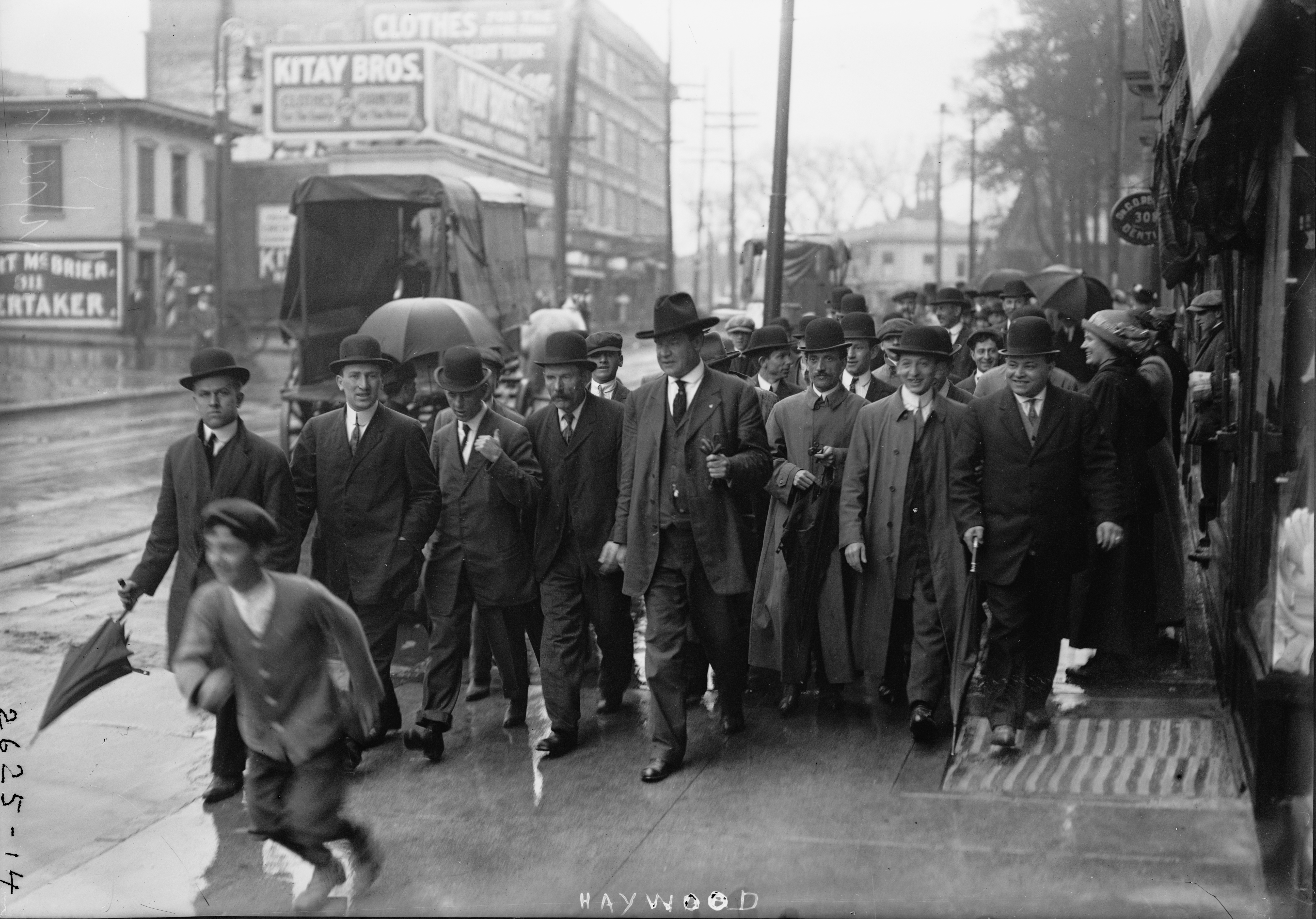 Bain News Service,, publisher. William Dudley Haywood at the 1913 Paterson Silk Strike in Paterson [no date recorded on caption card] 1 negative : glass ; 5 x 7 in. or smaller. Notes: Title from unverified data provided by the Bain News Service on the negatives or caption cards. Forms part of: George Grantham Bain Collection (Library of Congress). Format: Glass negatives. Repository: Library of Congress, Prints and Photographs Division, Washington, D.C. 20540 USA, General information about the Bain Collection is available at Persistent URL: Call Number: LC-B2- 2625-14